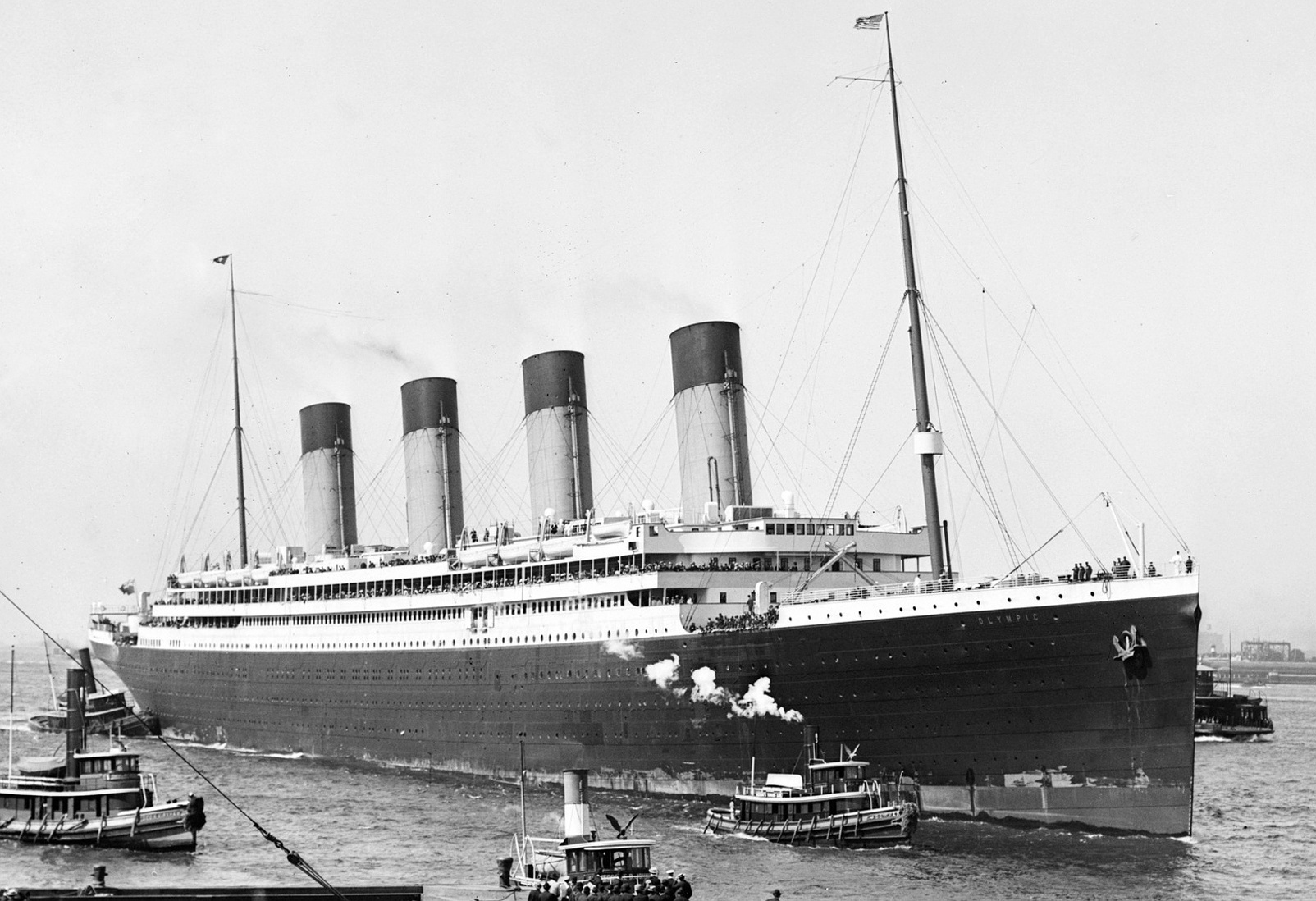 Olympic first time in New-York